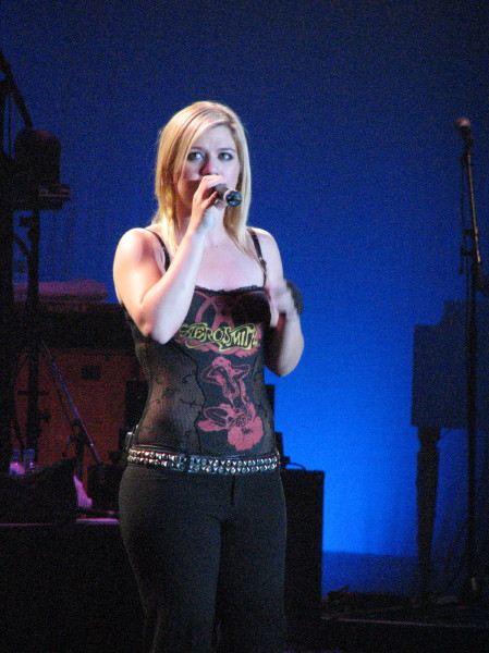 Kelly Clarkson, AIS Arena, Canberra